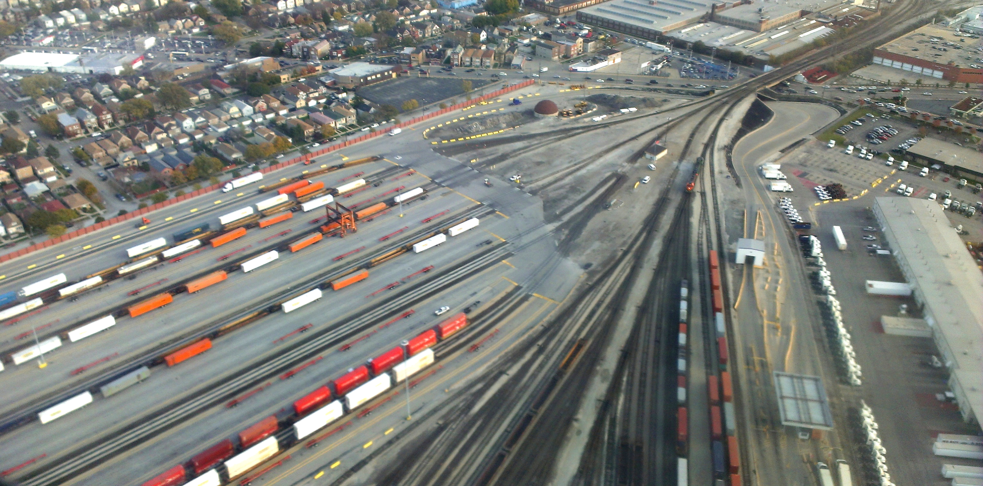 BNSF Corwith intermodal yard